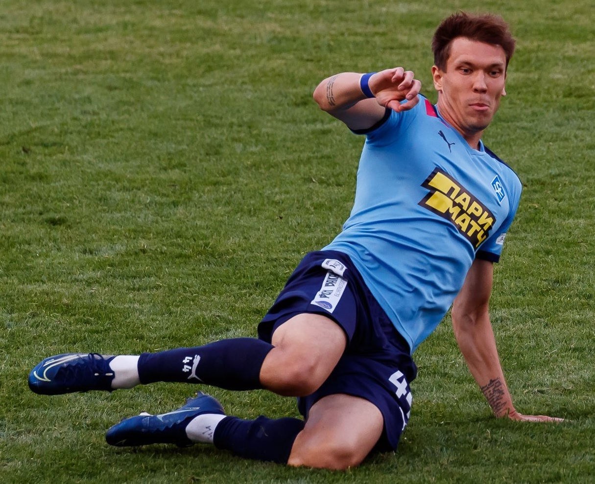 Nikita Chicherin with PFC Krylia Sovetov Samara in a game against FC Lokomotiv Moscow.